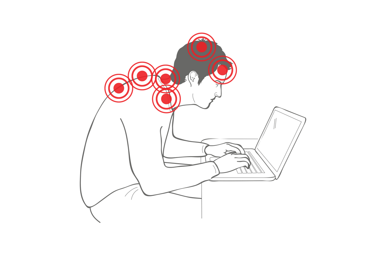 stress points from computer posture